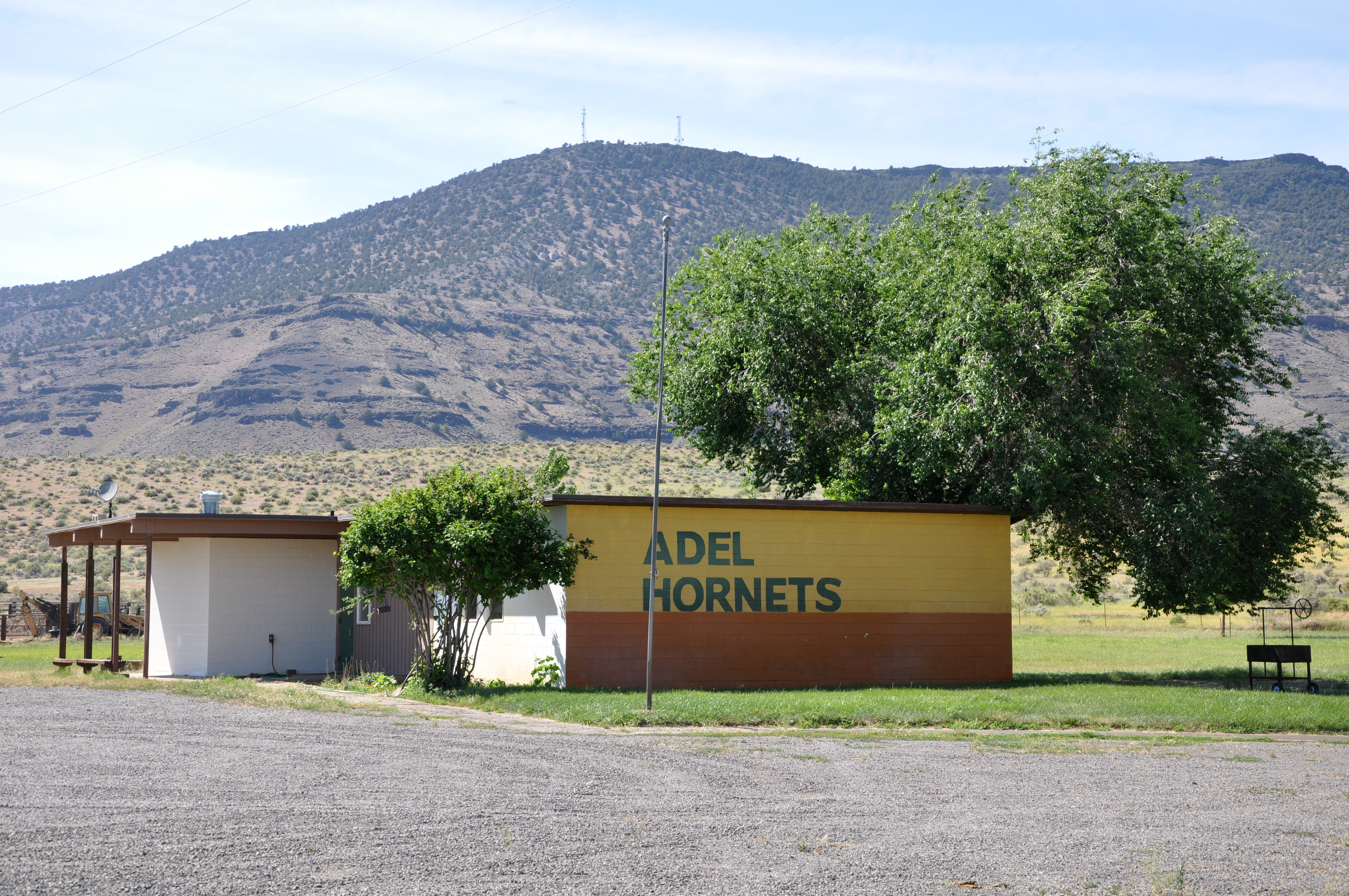 Adel School, grades 3 through 8, in Adel in the U.S. state of Oregon